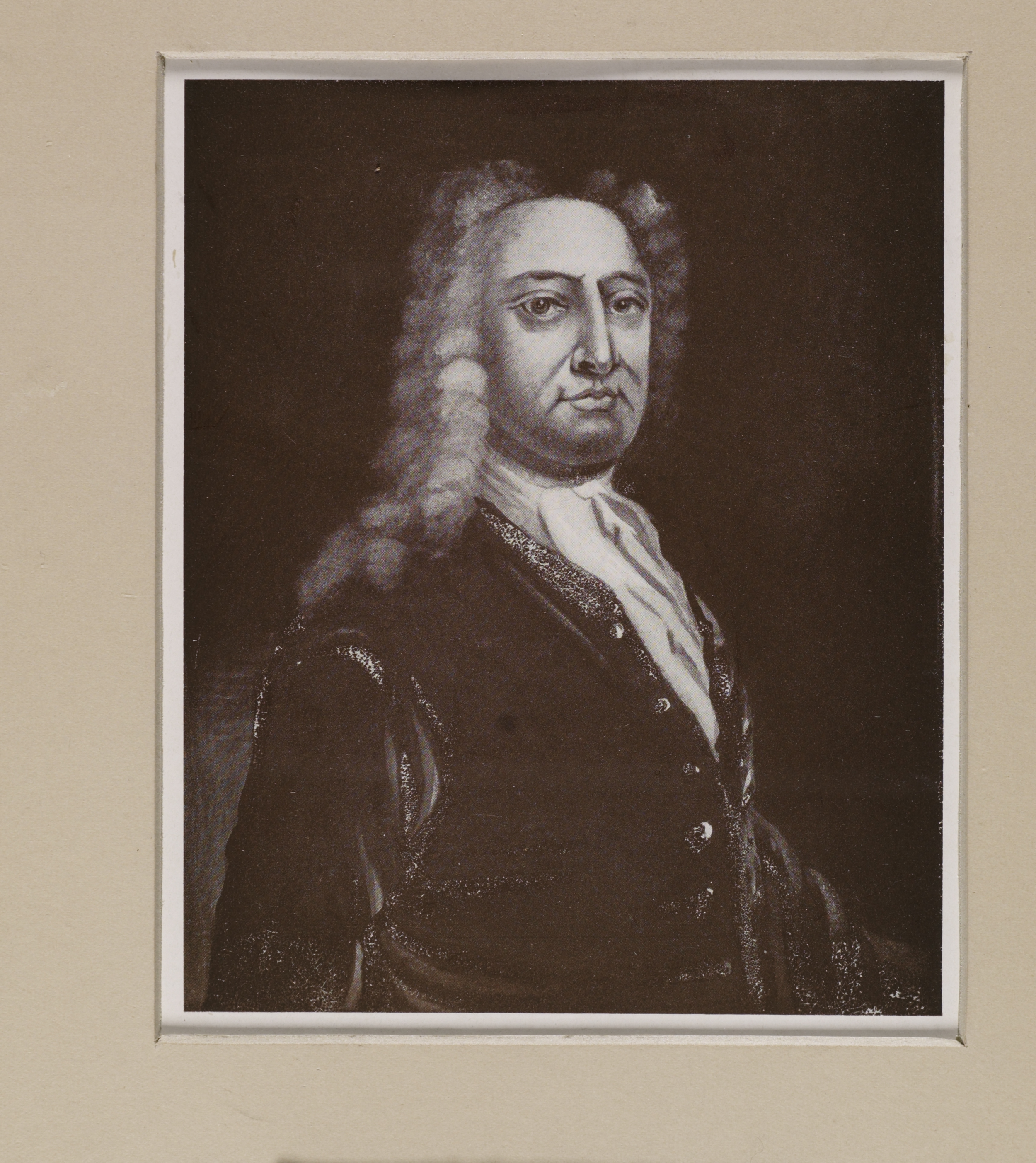 Charles Radcliff, 5th Earl of DERWENTWATER (1693- 1746) Jacobite Portrait of Derwentwater from waist up. (John Radclyffe, titular 4th Earl of Derwentwater (1713–1731) is generally accepted to have died at the age of 19).